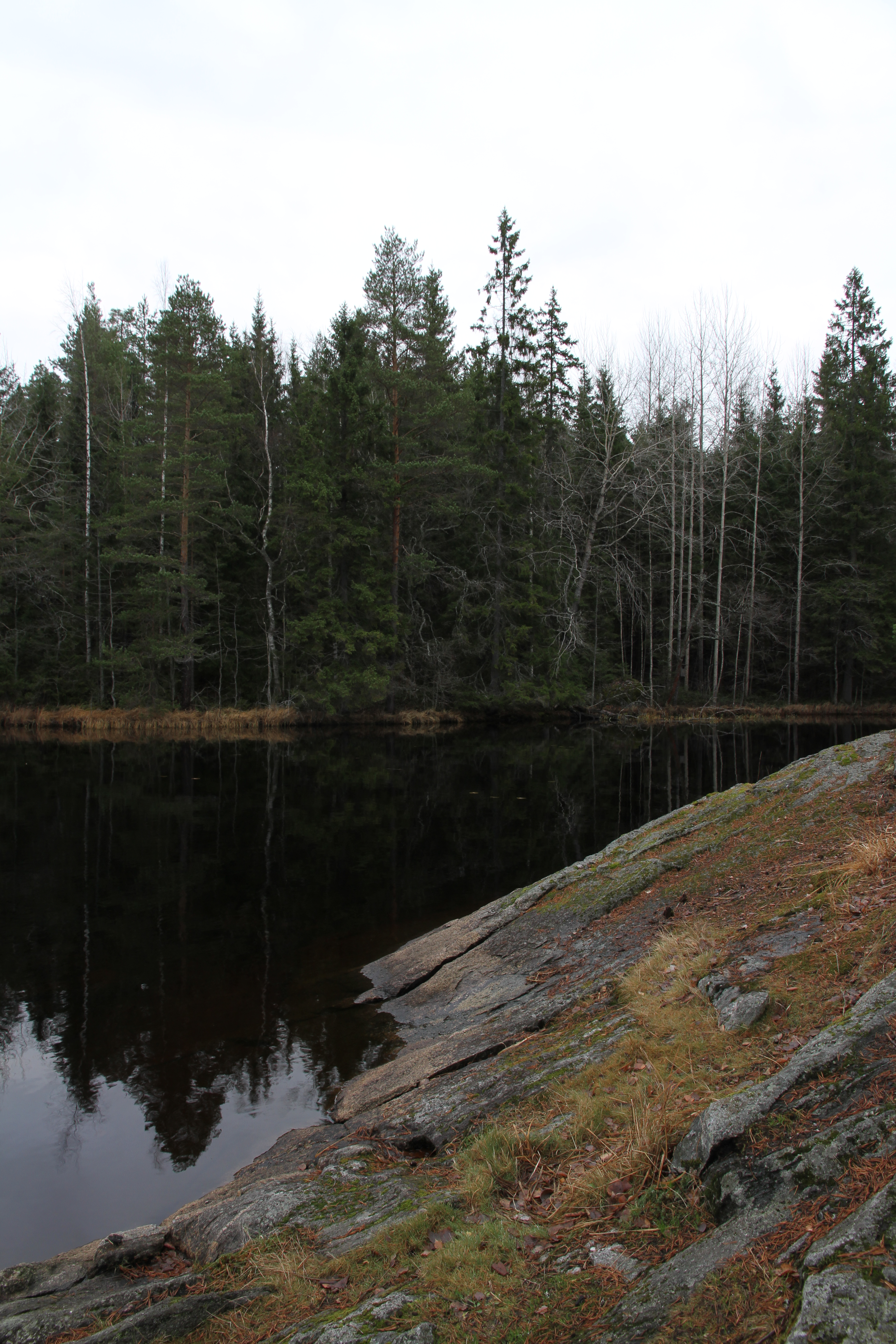 Liesjärvi National Park, Finland.